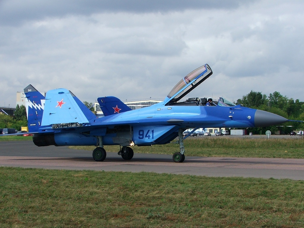 MiG-29K (9-41) carrier-based multirole fighter at MAKS-2007 airshow